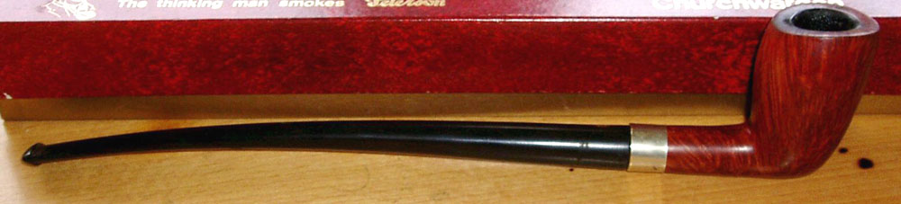 reading pipe